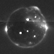 Original Caption Released with Image: This image of Io eclipsed by Jupiter's shadow is a combination of several images taken by the New Horizons Long Range Reconnaissance Imager (LORRI) between 09:35 and 09:41 Universal Time on February 27, 2007, about 28 hours after the spacecraft's closest approach to Jupiter. North is at the top of the image. In the darkness, only glowing hot lava, auroral displays in Io's tenuous atmosphere and the moon's volcanic plumes are visible. The brightest points of light in the image are the glow of incandescent lava at several active volcanoes. The three brightest volcanoes south of the equator are, from left to right, Pele, Reiden and Marduk. North of the equator, near the disk center, a previously unknown volcano near 22 degrees north, 233 degrees west glows brightly. (The dark streak to its right is an artifact.) The edge of Io's disk is outlined by the auroral glow produced as intense radiation from Jupiter's magnetosphere bombards the atmosphere. The glow is patchy because the atmosphere itself is patchy, being denser over active volcanoes. At the 1 o'clock position the giant glowing plume from the Tvashtar volcano rises 330 kilometers (200 miles) above the edge of the disk, and several smaller plumes are also visible as diffuse glows scattered across the disk. Bright glows at the edge of Io on the left and right sides of the disk mark regions where electrical currents connect Io to Jupiter's magnetosphere. New Horizons was 2.8 million kilometers (1.7 million miles) from Io when this picture was taken, and the image is centered at Io coordinates 2 degrees south, 238 degrees west. The image has been heavily processed to remove scattered light from Jupiter, but some artifacts remain, including a horizontal seam where two sets of frames were pieced together. Total exposure time for this image was 56 seconds.